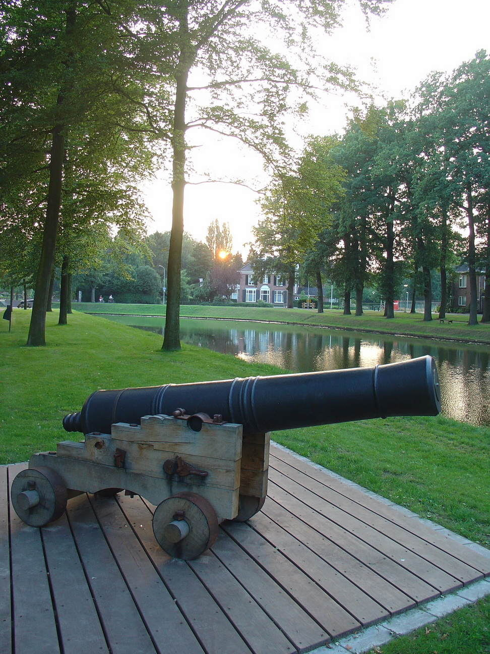 Town canals with newly forged canons in Groenlo, the Netherlands.